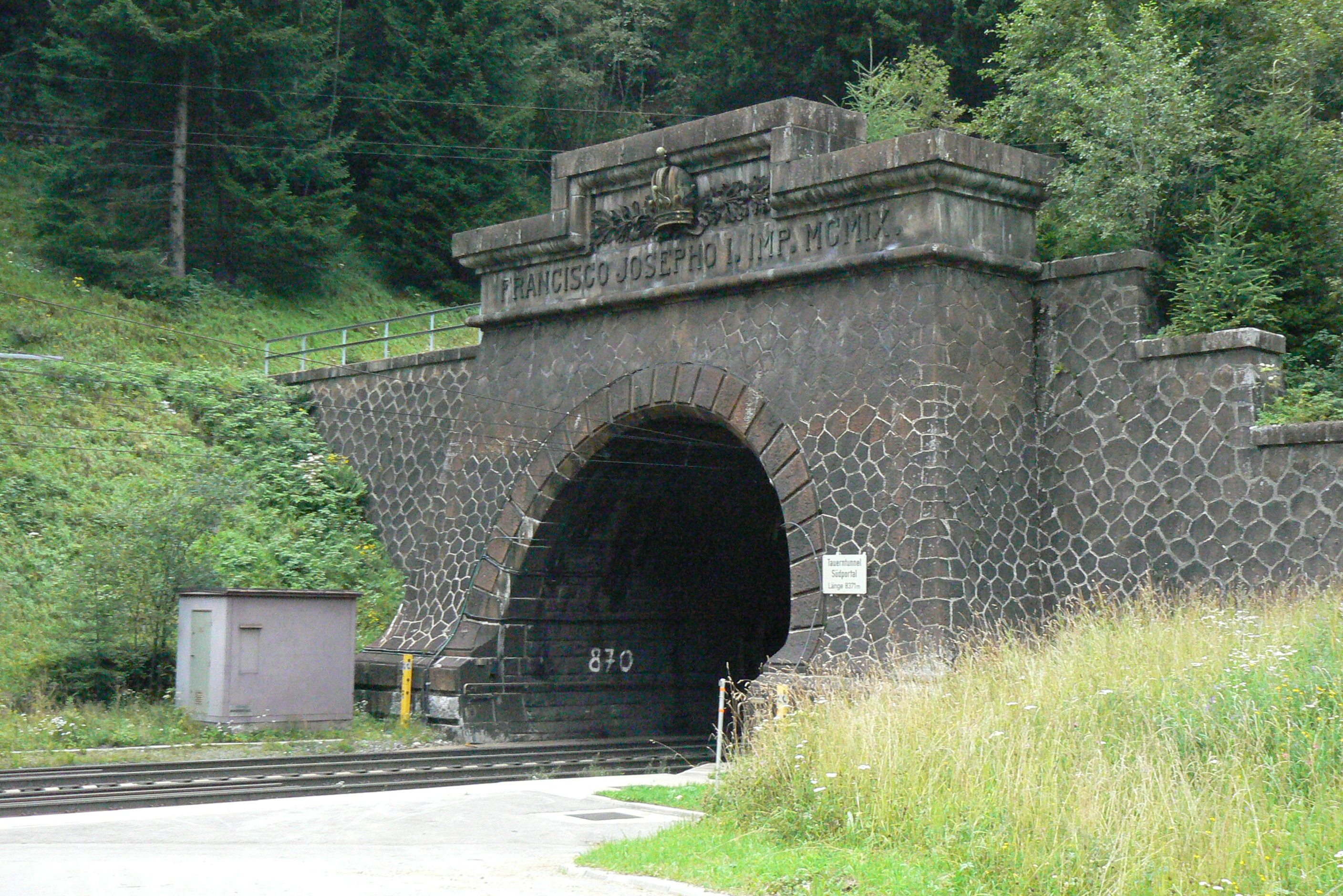 South portal of the Tauern rail tunnel, Mallnitz, Austria